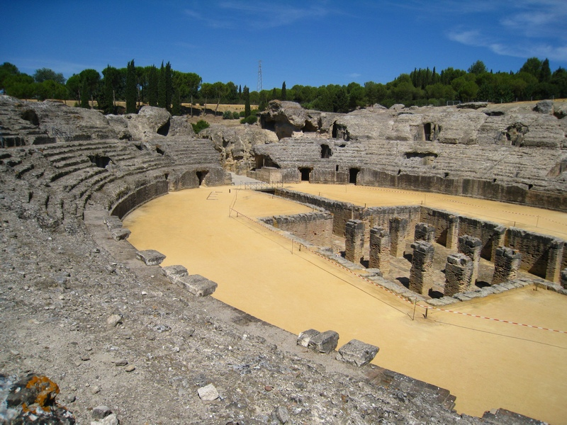 Amphitheatre in Italica archeological site, Santiponce, Andalucia, Spain